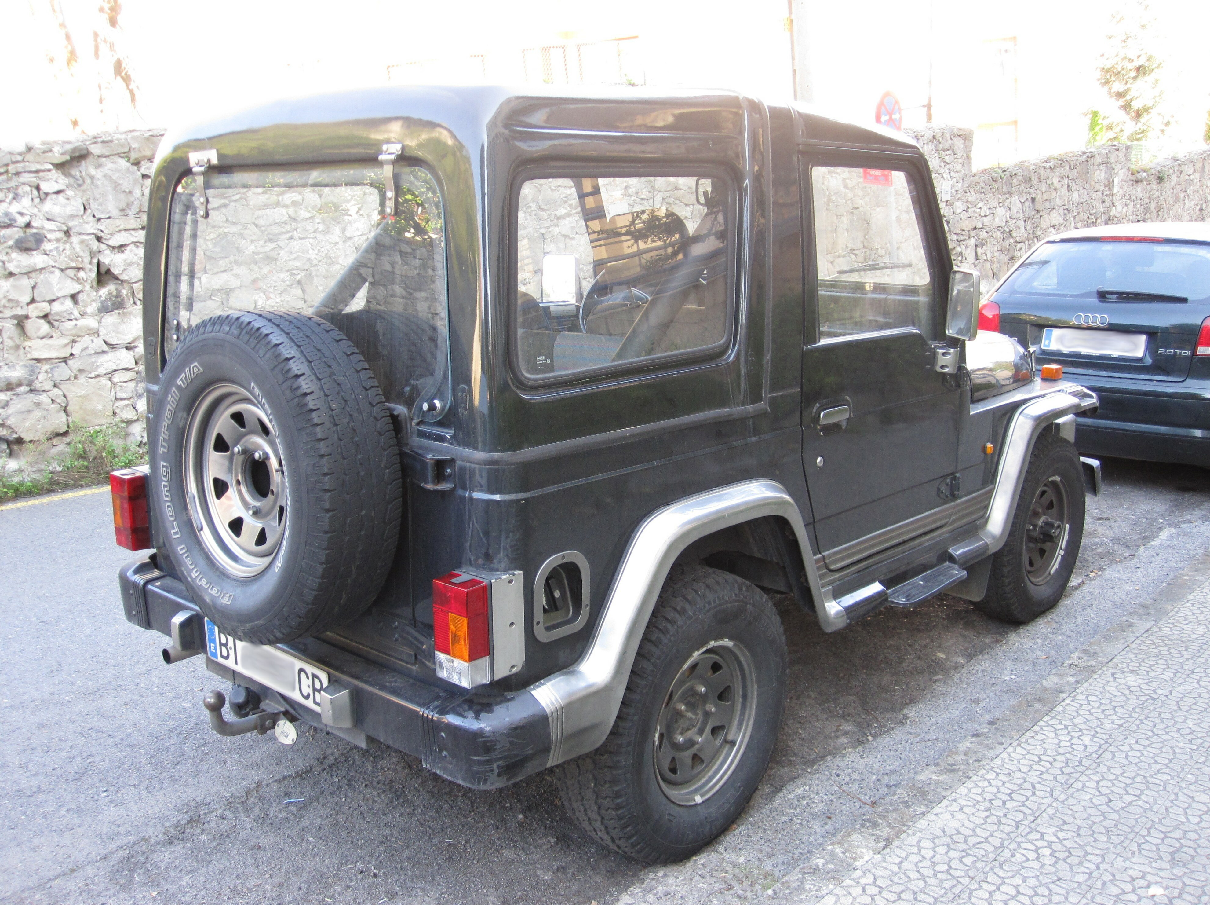 Another rare car! I've always liked a lot these cars "Wranger-like" they have to be kind of fun to drive :) This one had a 1996 plate from Bilbao (Vizcaya) and was seen in Castro Urdiales (Cantabria).